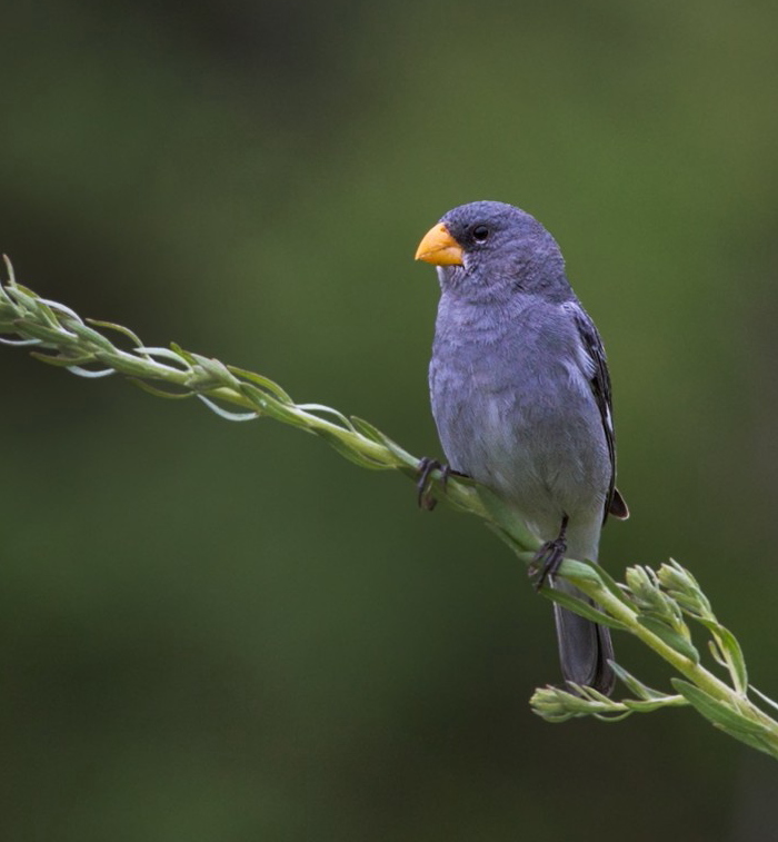 Tropeiro seedeater (male) at Lages - SC - Brazil